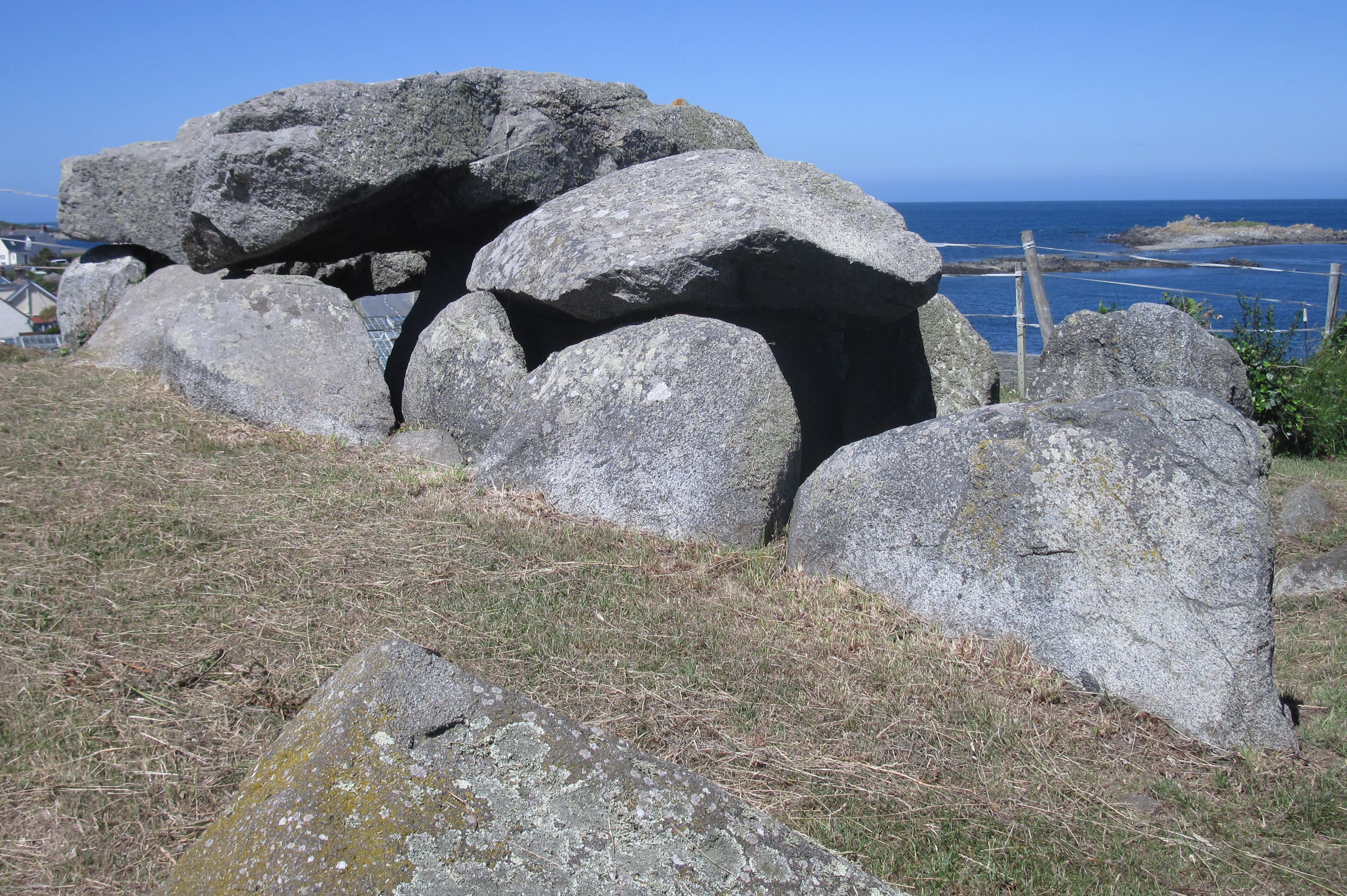 In Guernsey, 4 July 2010: Le Trépied dolmen, Le Catioroc, St Saviour, Guernsey